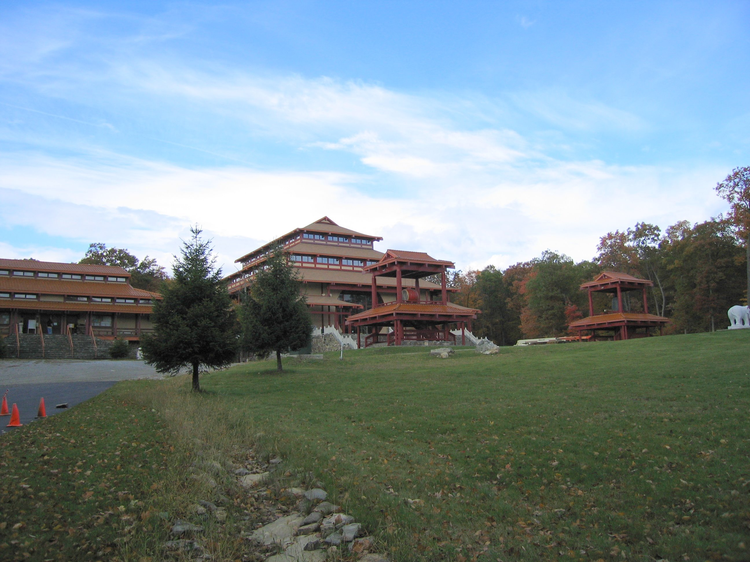 Chuang Yen Monastery in Carmel, New York. Center building is the Kuan Yin Hall.